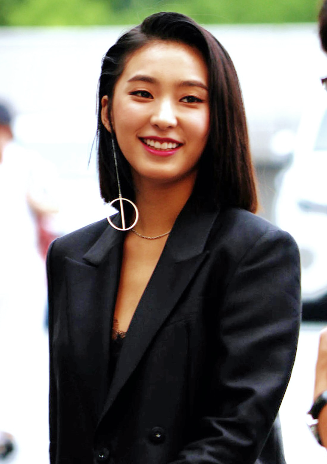 Yoon Bo-ra going to a Hit the Stage recording on July 22, 2016.